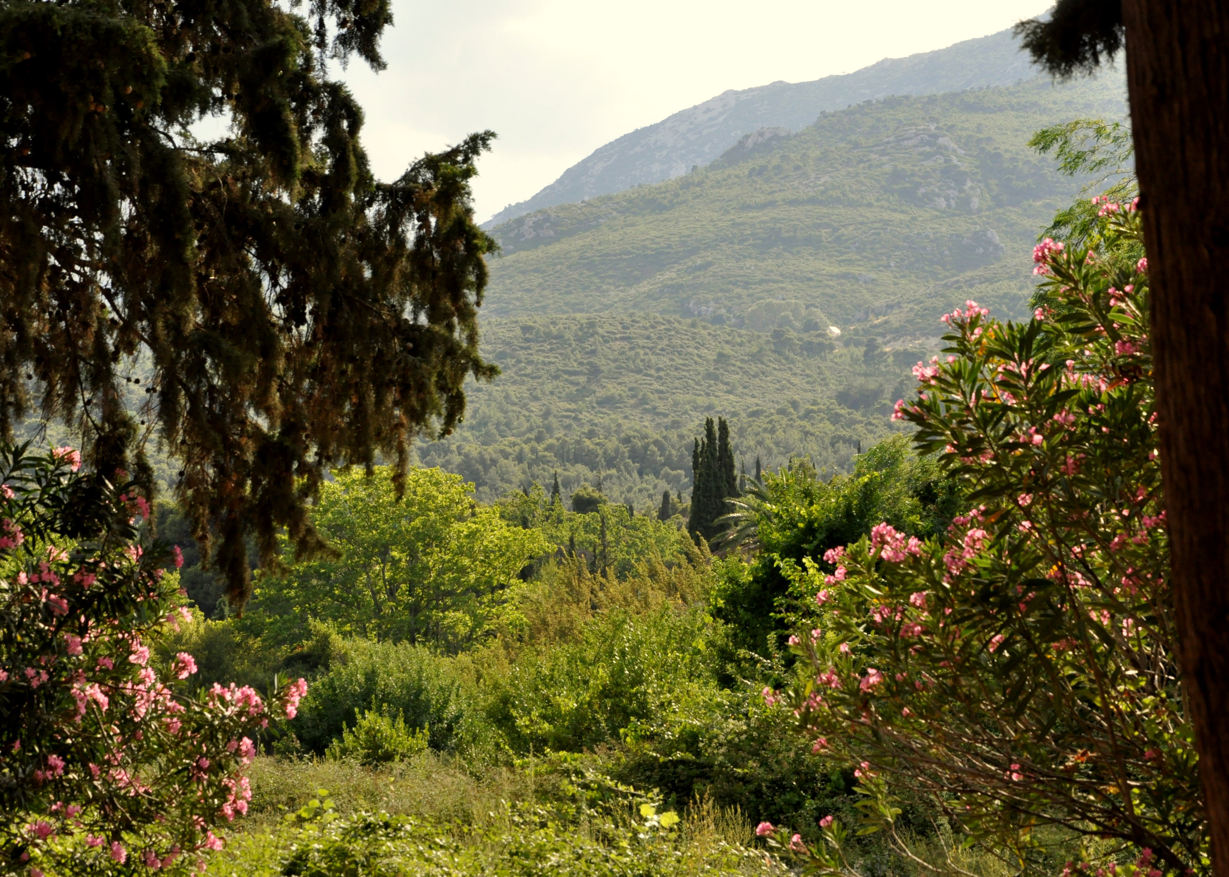 Lower slopes of Parnitha Mountain (Πάρνηθα), as seen from Tatoi, the former king's property.